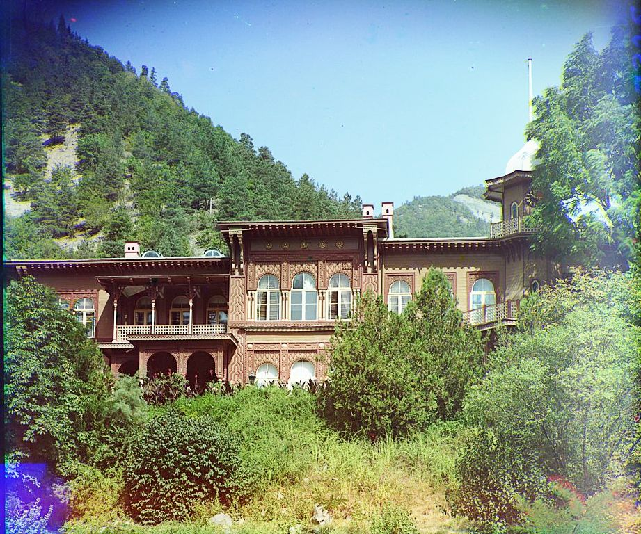 Grand Prince Mikhail Nikolaevich's palace.